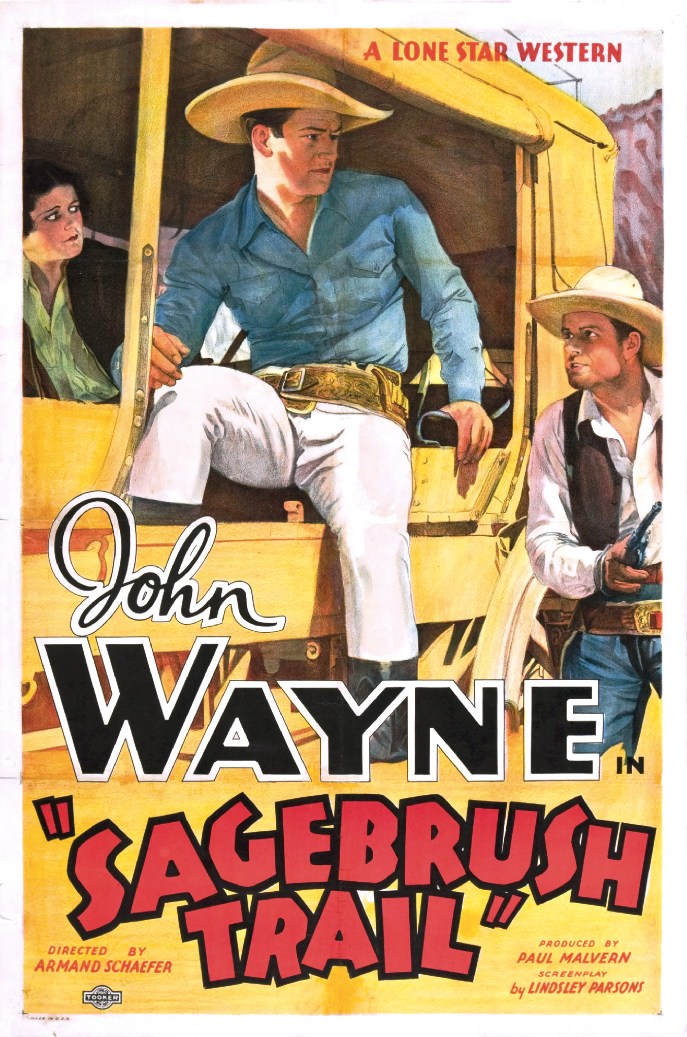 Poster for the 1933 film Sagebrush Trail. The item has no copyright markings on it as can be seen in the links above. At lower left is a logo for the Tooker Litho Company--they printed the poster.